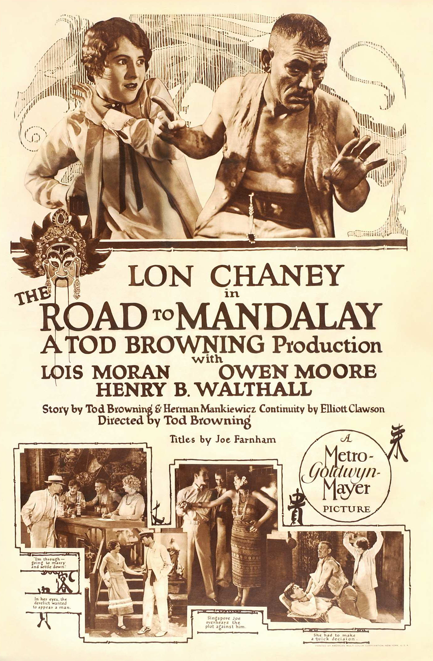 Lon Chaney and Lois Moran in The Road to Mandalay - promotional poster